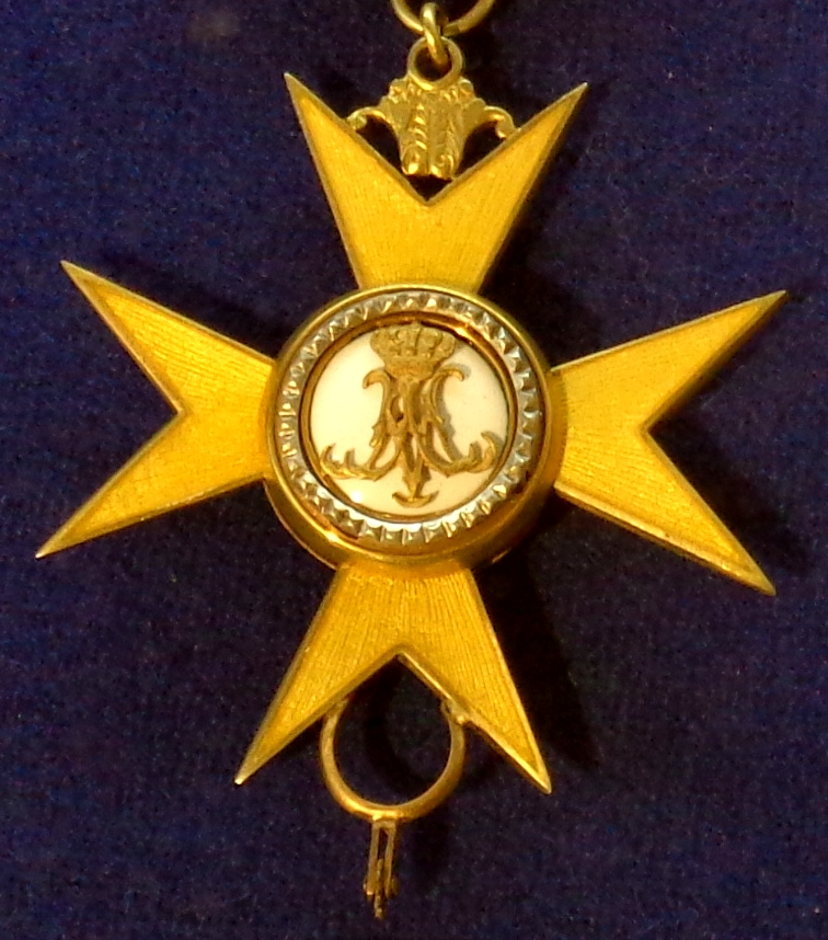 Order of the Golden Spur, badge. Vatican. The exhibition of the Tallinn Museum of Orders of Knighthood, Estonia.